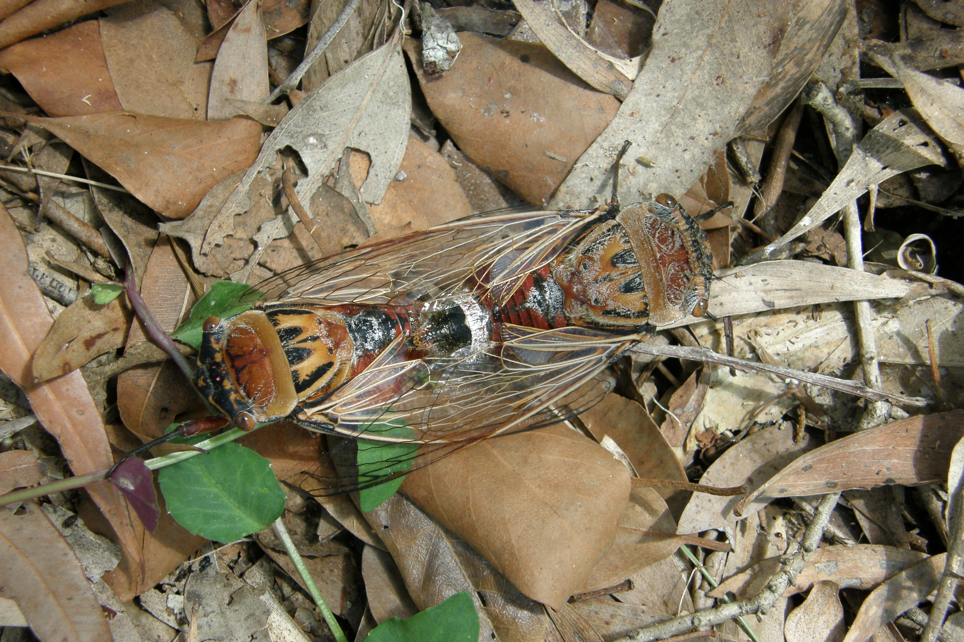 Pair of mating double drummers (Thopha saccata), SE Qld